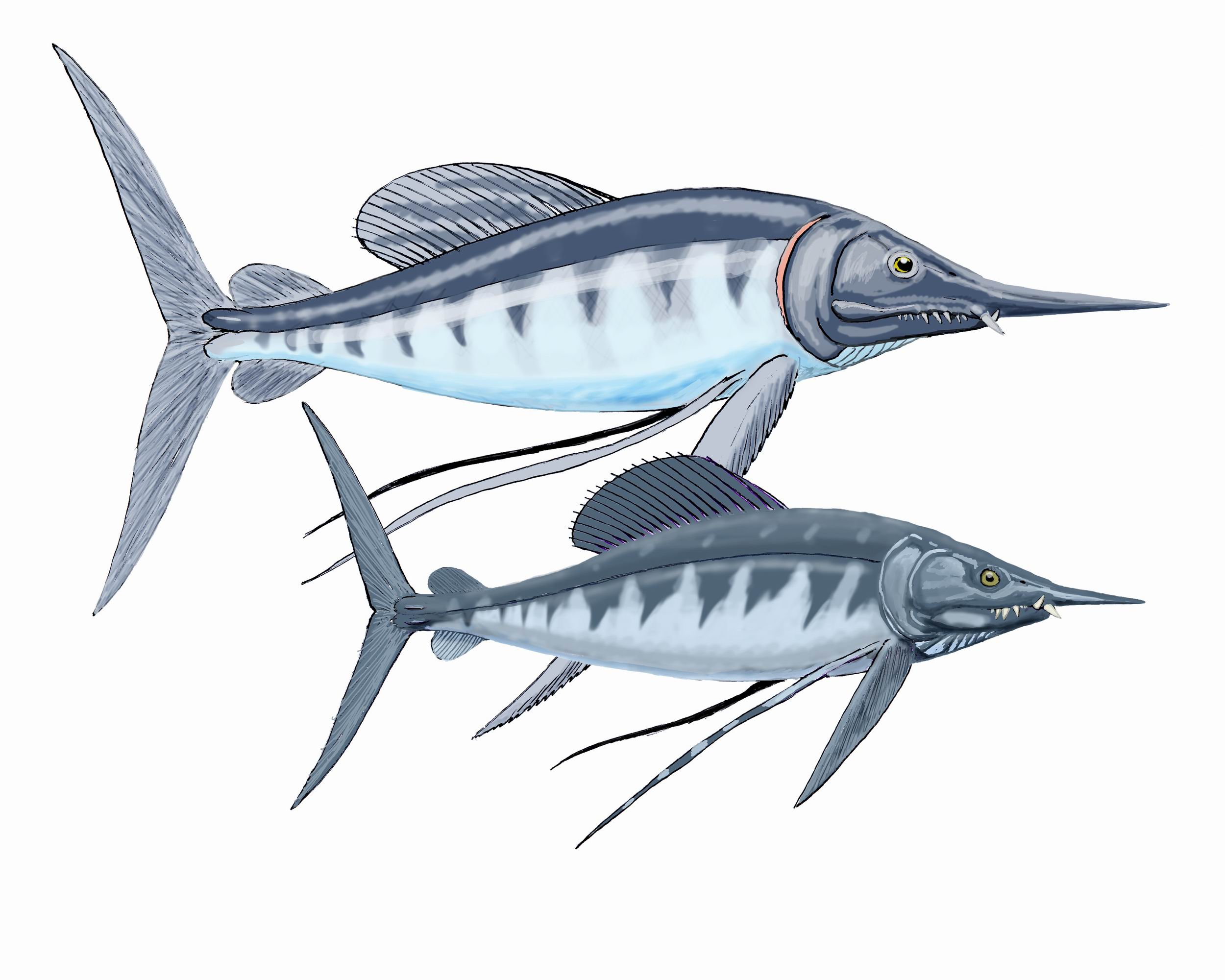 Two species of Kansas Protosphyraena - bigger (about 3 m long) P. perniciosa and smaller P. nitida.